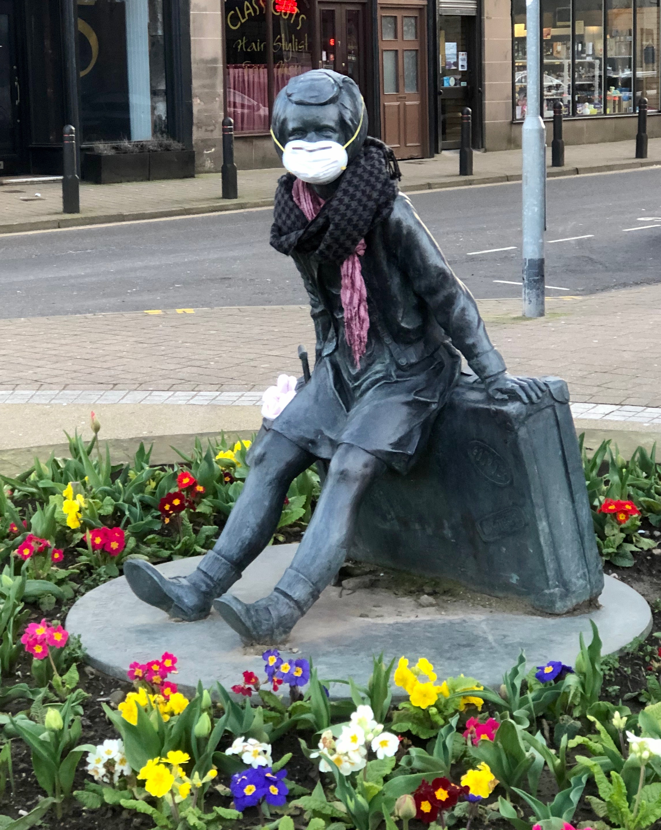 "Wee Annie", a sculpture at the north end of Gourock's Kempock Street, commemorates the town's past as a seaside resort, and its pier as a setting-off point for Clyde Steamers taking holidaymakers down the Firth of Clyde. The statue, also known as "Girl on a Suitcase", was created by Angela Hunter as part of a public art project commissioned by Riverside Inverclyde in 2011. It has become a local tradition to keep Wee Annie warm with a scarf and woollen hat, during the 2020 coronavirus pandemic in the United Kingdom she was duly given a face mask. Behind her, Kempock Street is unusually quiet as cafes, pubs and many shops have been closed to minimise spread of the virus. Lochrie, Susan (2015). Gourock's 'Wee Annie' back from her holidays. Greenock Telegraph. Readers' Pictures - Wee Annie Taking No Chances With Coronavirus. Inverclyde Now (2020-03-22).